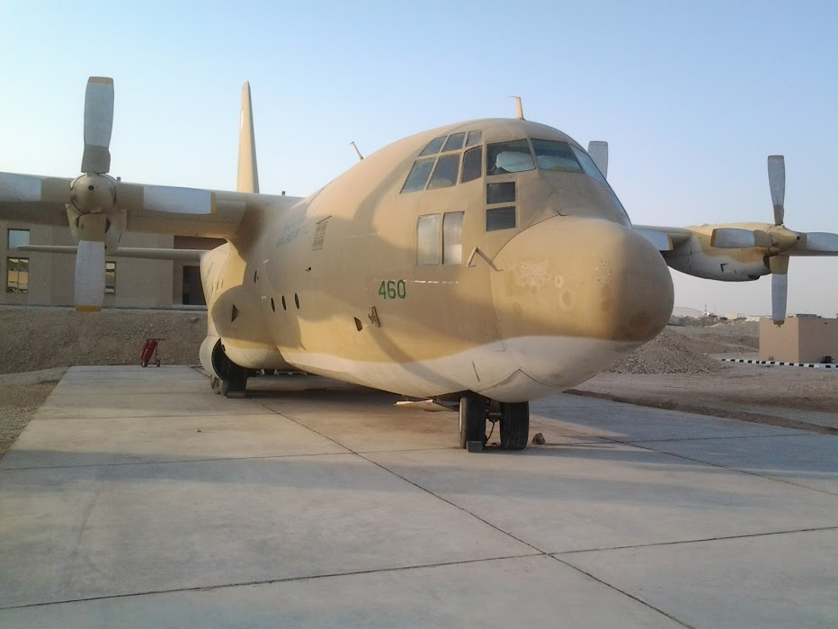 C-130 at Riyath Air base Museum